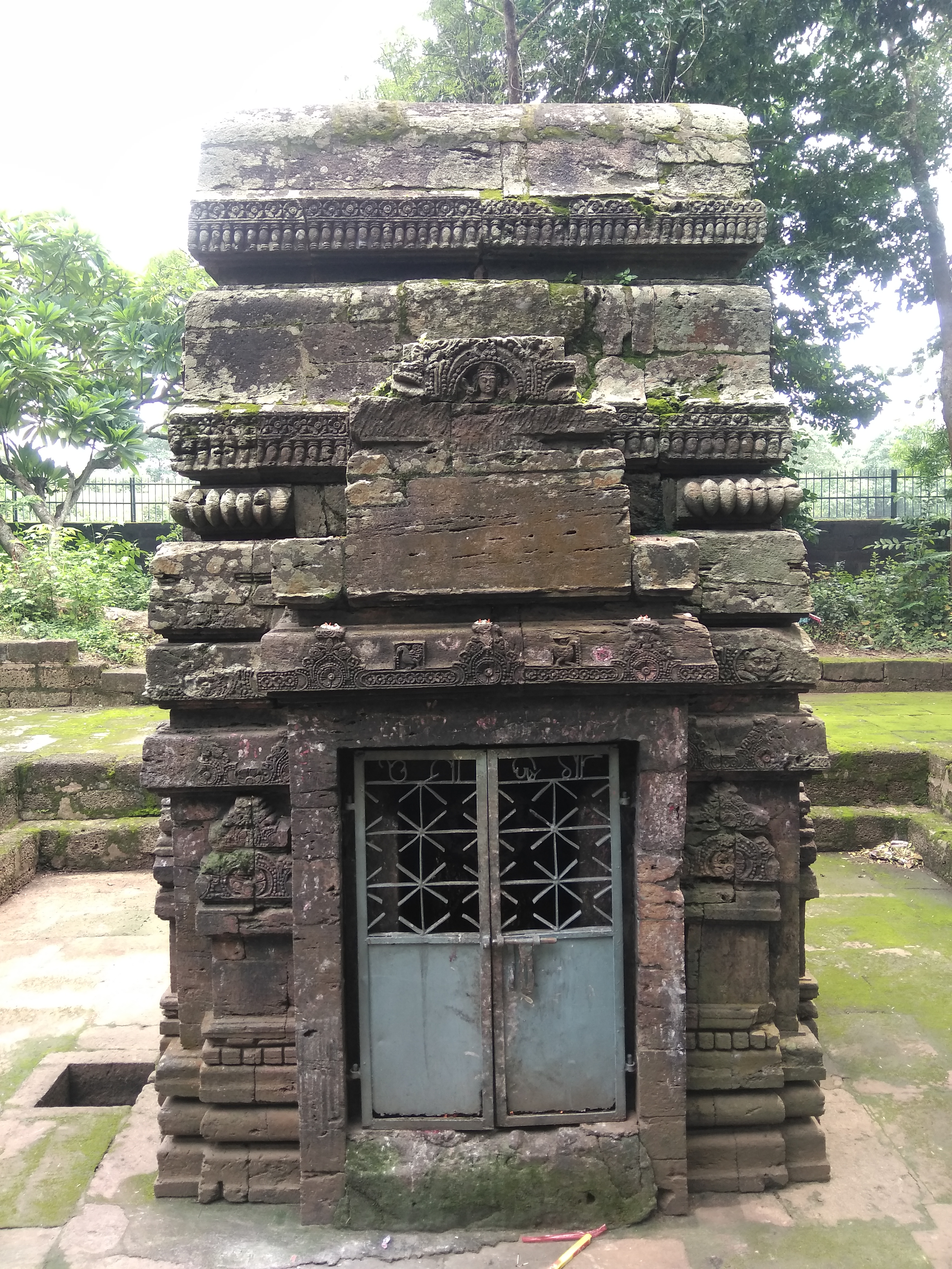 Durga temple